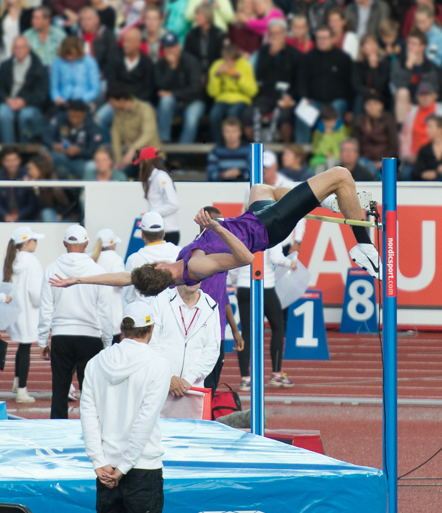 Derek Drouin at the Stockholm Olympic Stadium during the Bauhaus Gala (Stockholm Bauhaus Athletics), (2015 IAAF Diamond League) July 30, 2015.